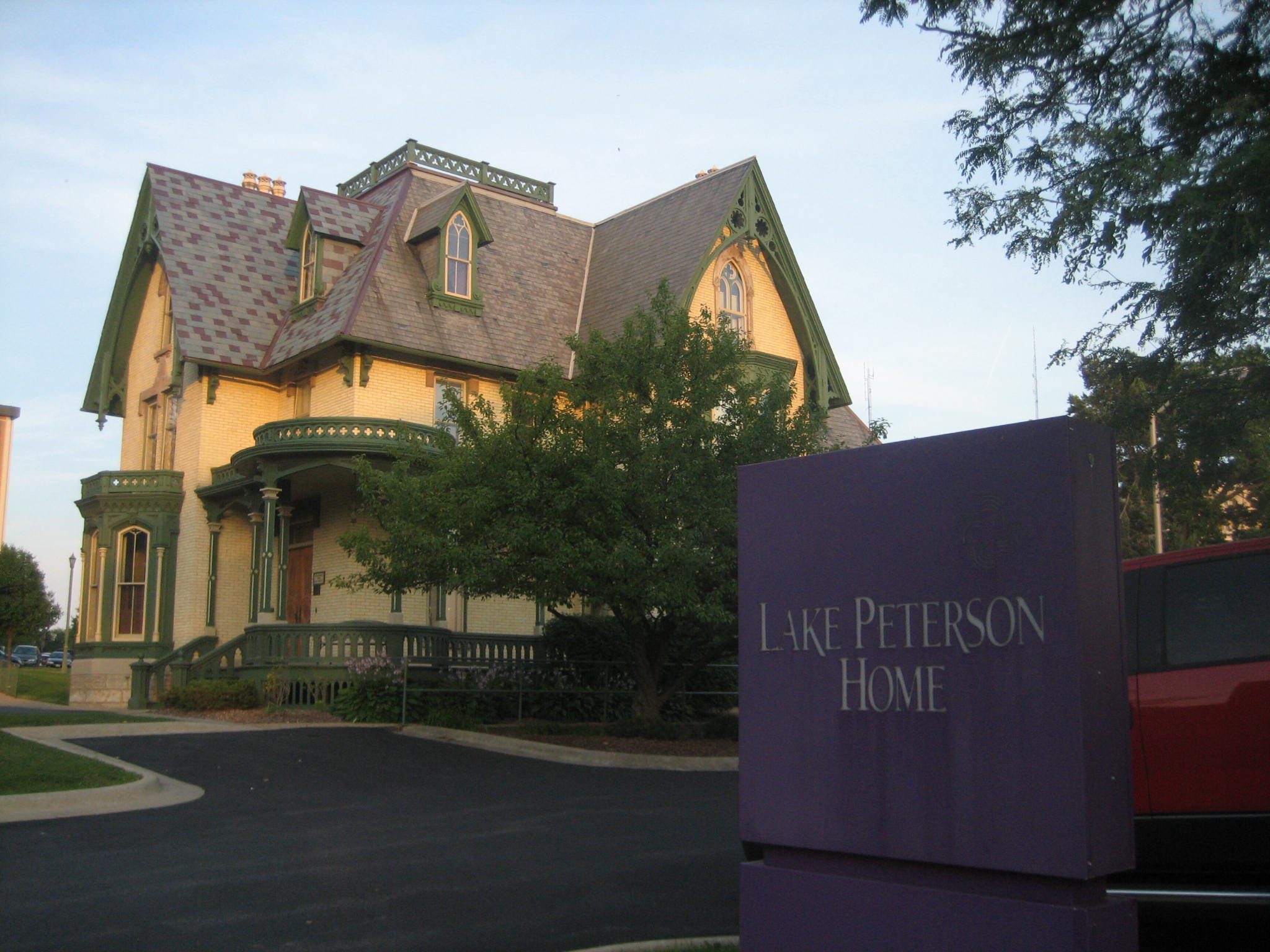 Lake-Peterson House, Rockford, Illinois, United States. U.S. National Register of Historic Places.